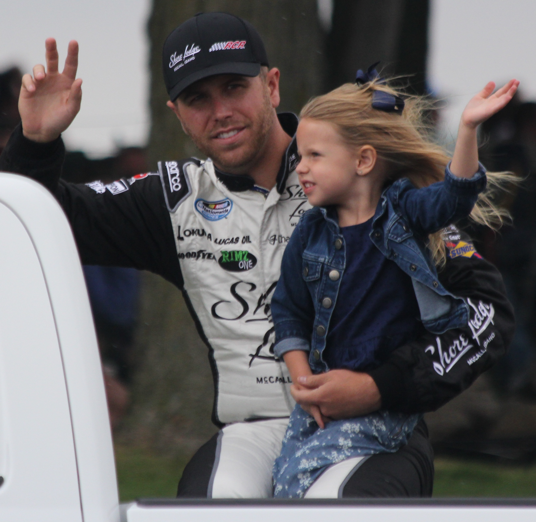 NASCAR Nationwide Series driver Brian Scott waves to the crowd at the 2014 Gardner Denver 200 event at Road America.